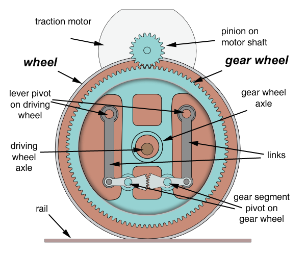 Buchli drive schematic